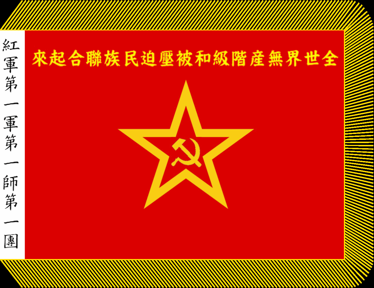 1930年10月下旬颁布《中国工农红军编制草案》编制表所载旗帜样式：1930年10月下旬颁布的《中国工农红军编制草案》编制表七，附了中国工农红军军、师、团三级旗帜的图样：旗为正方形，军、师两级每边为3尺6寸，团每边为3尺2寸；靠旗柄的一边为条幅式部队番号，文字为“红军第×军第×师第×团”；上边为横幅式“全世界无产阶级被压迫民族联合起来”的文字；中间缀嵌有交叉的镰刀锤子图案的五角星；除旗柄的一边外，缀飘穗。编制表没有标明颜色。依据同时颁布的“臂章”和“帽章”标示的颜色判断：旗为红地、白条幅黑字、黄飘穗；五星颜色有两种，一是红星黄边图案，一是红星白边黄图案。